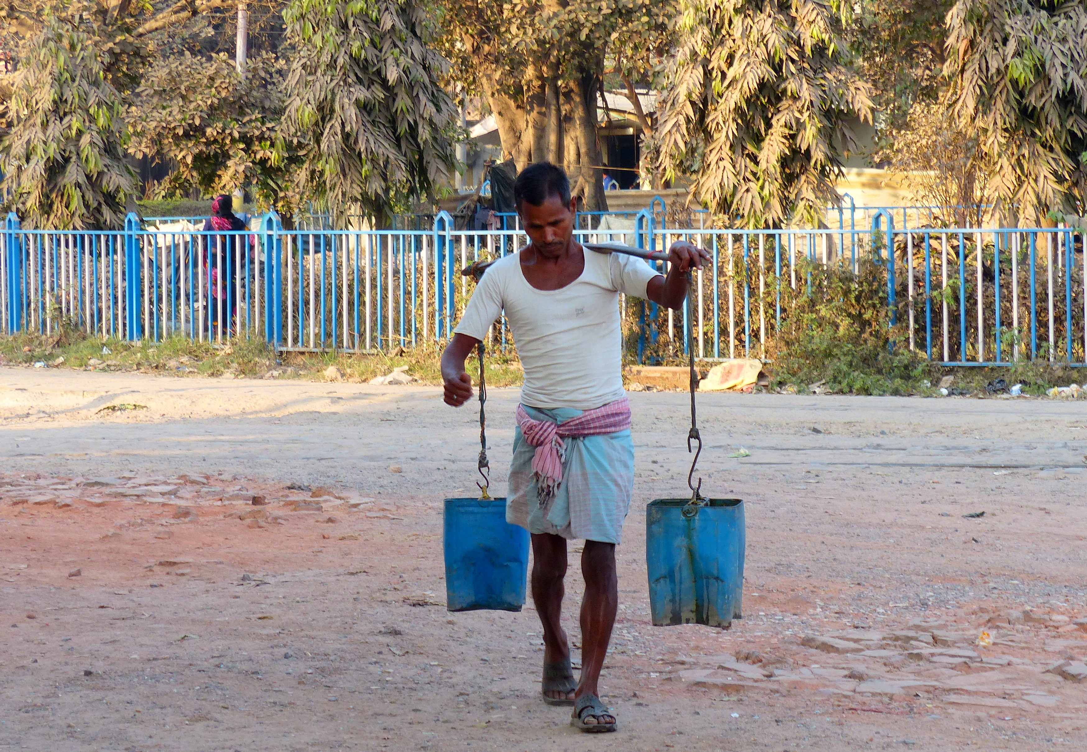 Carrying Water